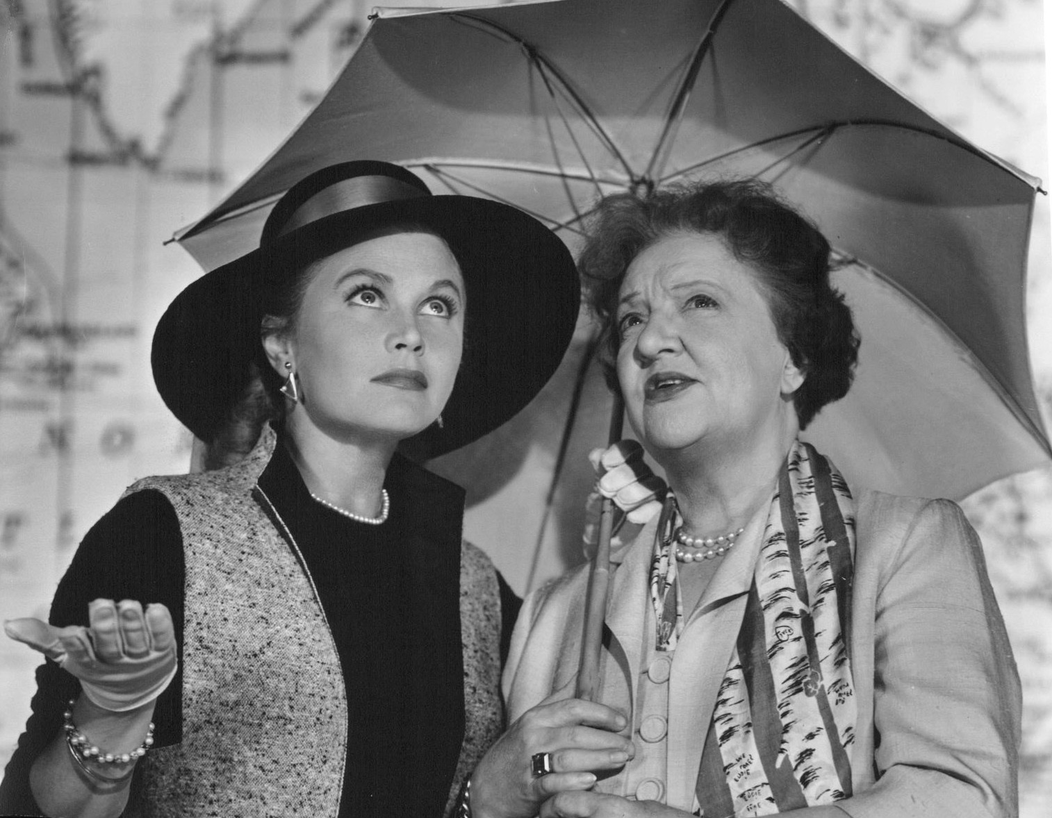 Photo of Joan Caulfield as Sally Truesdale and Marion Lorne as Myrtle Banford from the television comedy Sally. Caulfield played the traveling companion of a wealthy widow (Lorne).